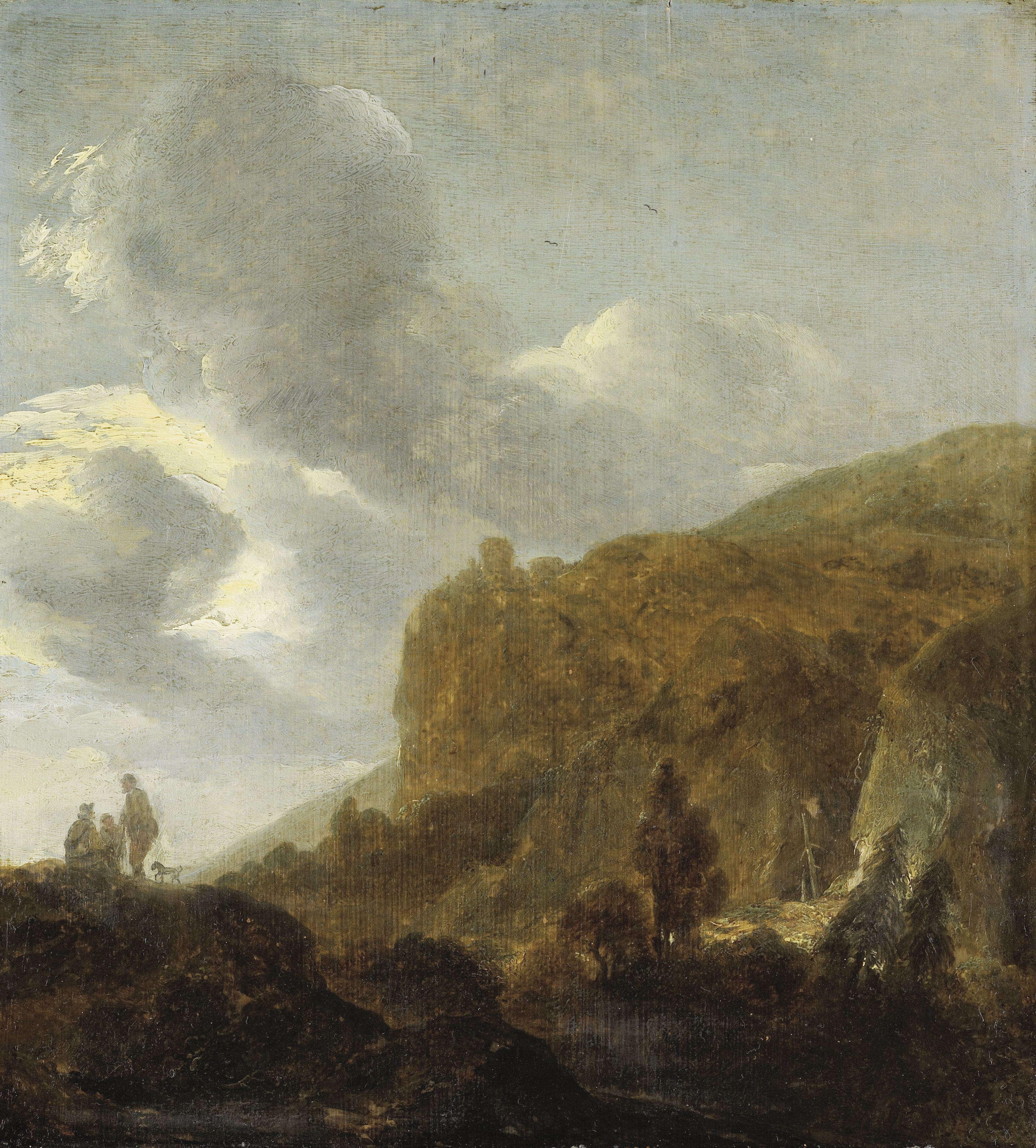 Mountenous landscape with bare rocks and pine trees. To the left a group of travellers with a dog.